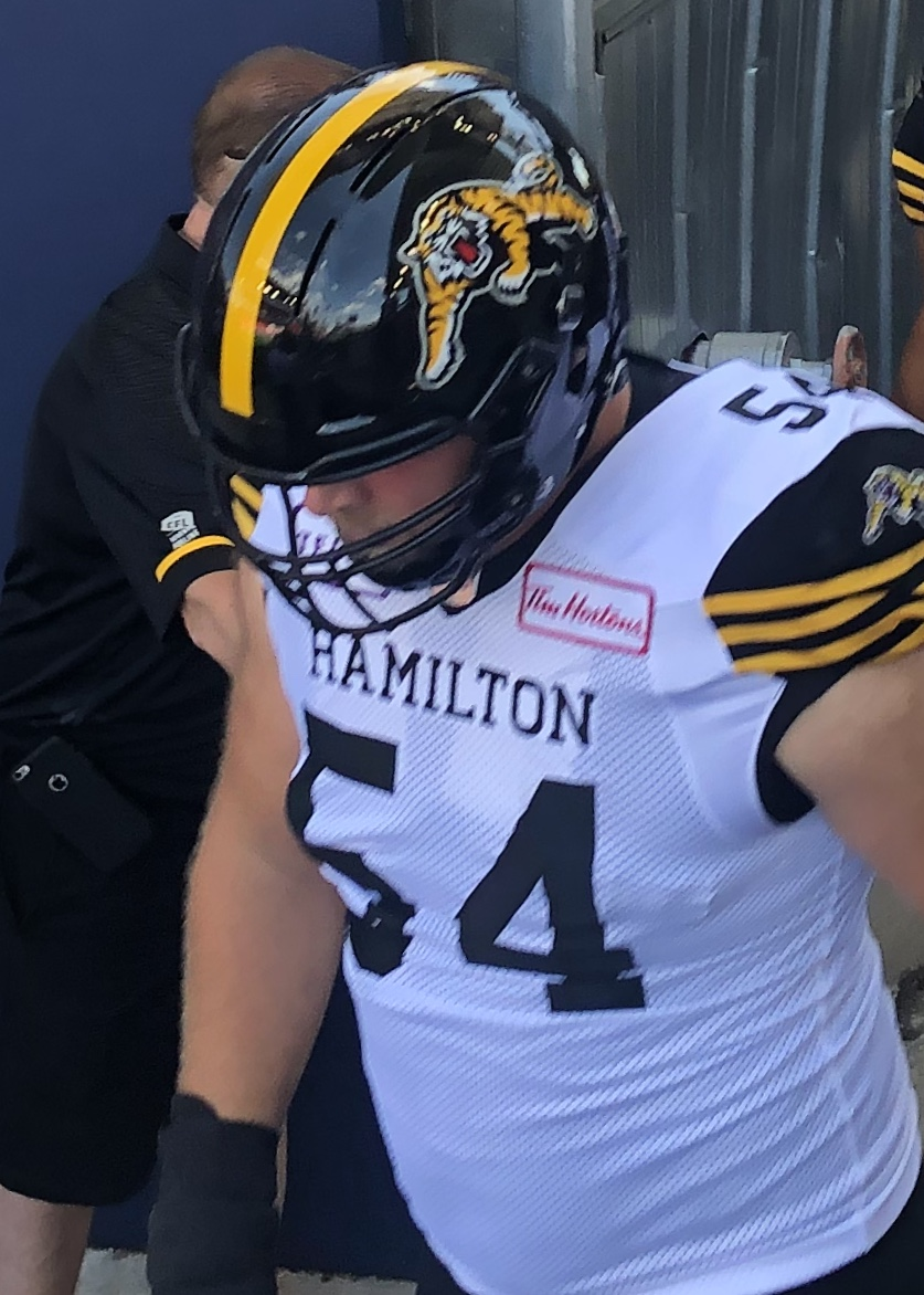 Chris Van Zeyl, offensive lineman for the Hamilton Tiger-Cats.